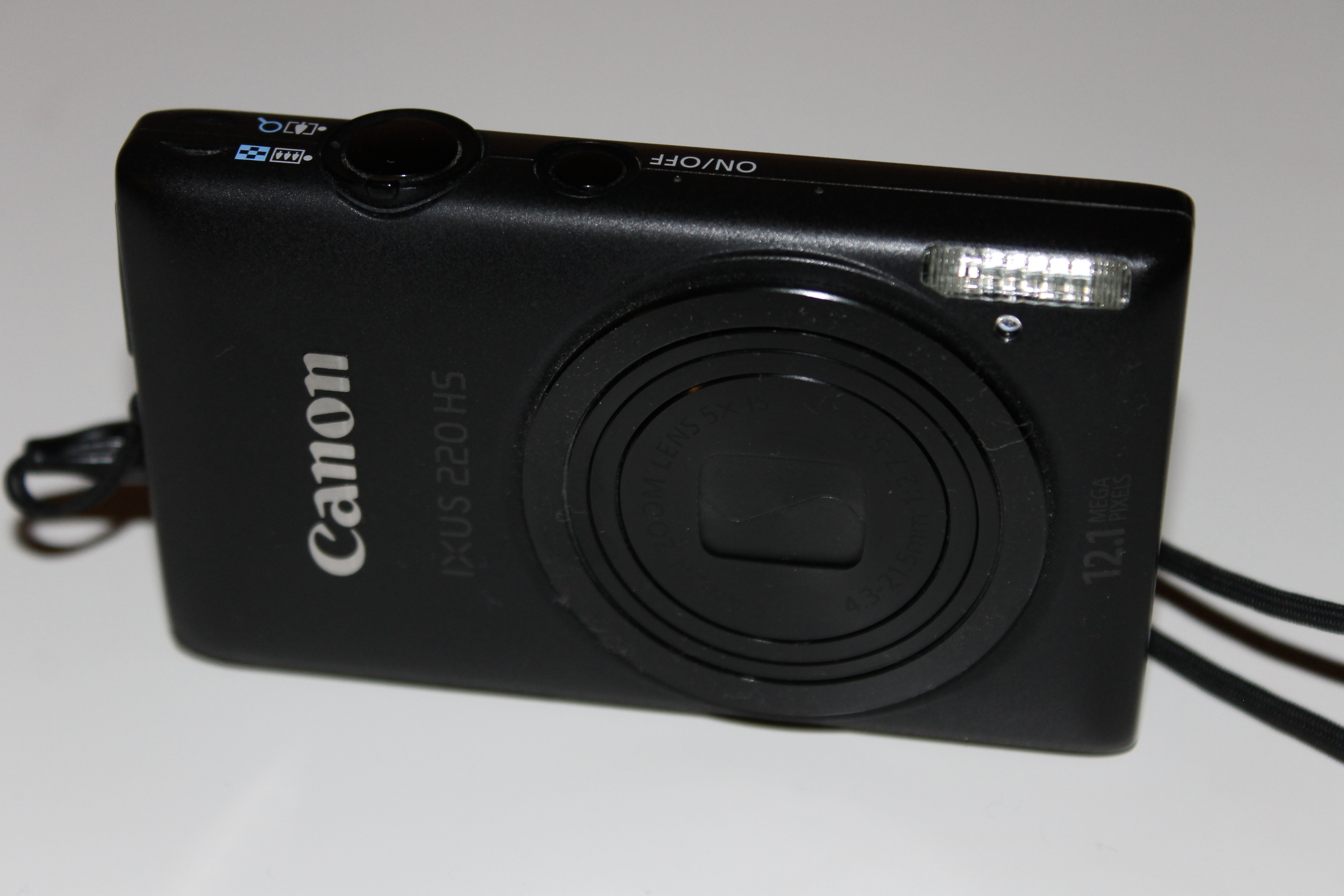 Canon IXUS 220 HS